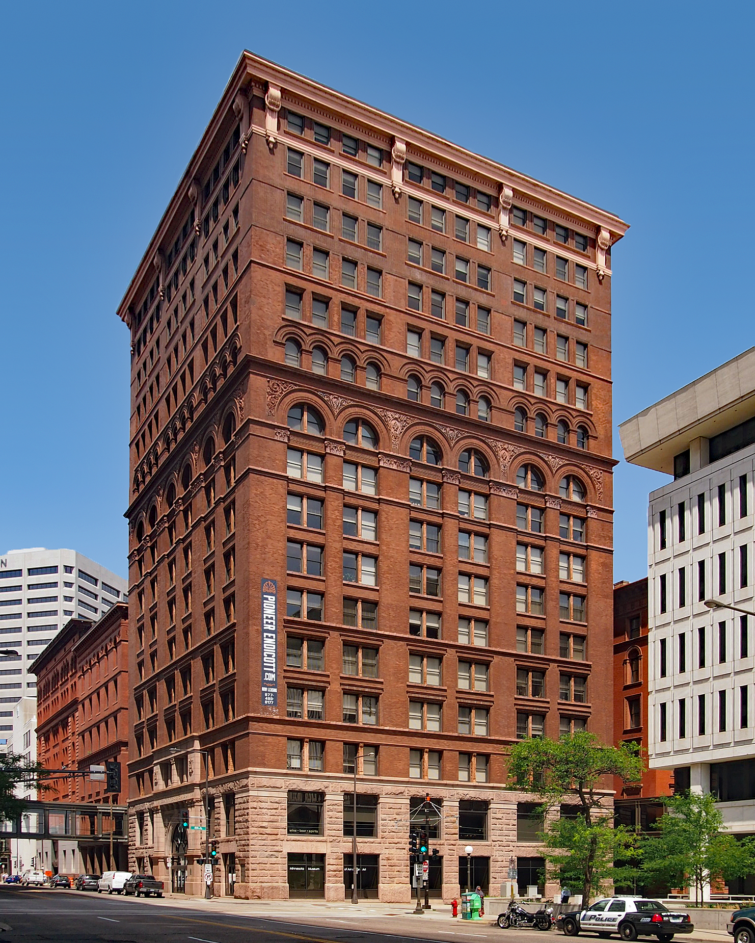 Pioneer & Endicott Buildings, 141 4th St E, St Paul, Minnesota, USA. Viewed from the south.